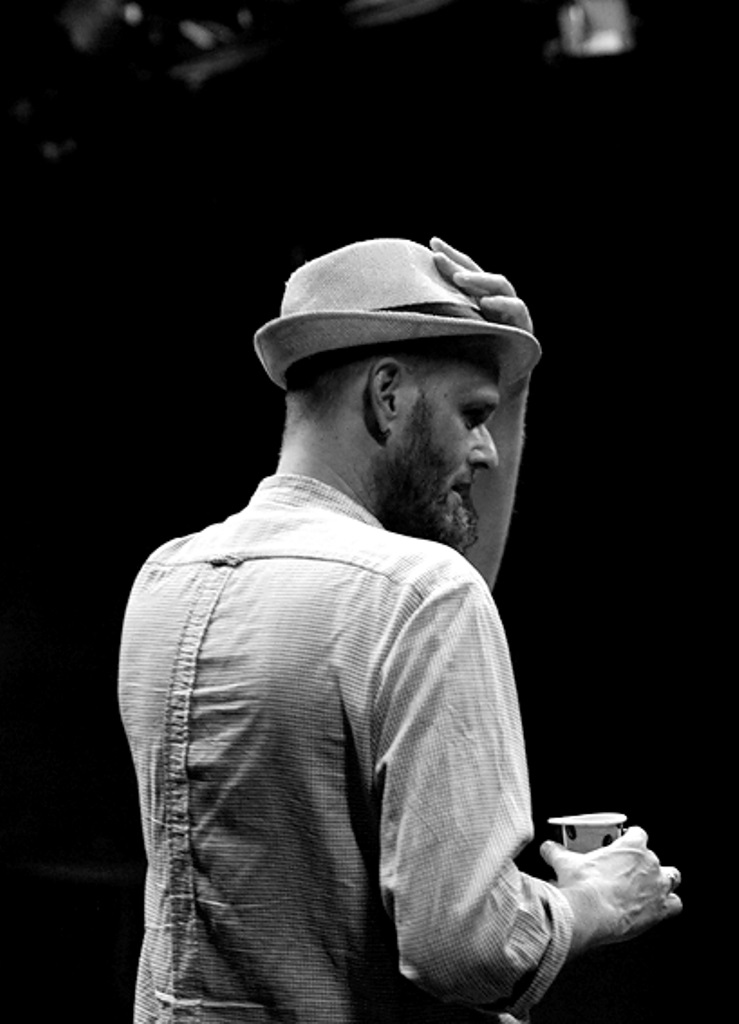 Idan Silberstein